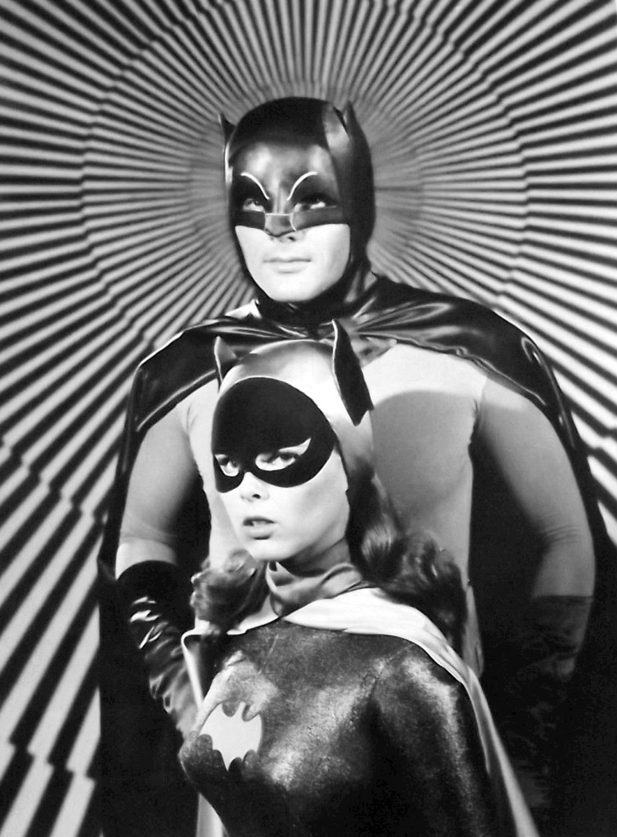 Photo of Adam West as Batman and Yvonne Craig as Batgirl from the television program Batman